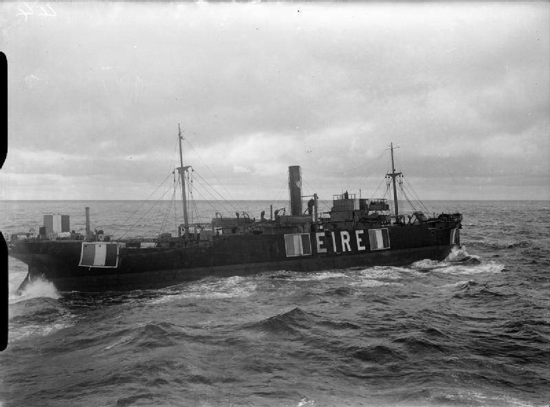 The Royal Navy during the Second World War An Irish merchant ship, IRISH POPLAR, with large markings on the sides to warn U-boats that she is a neutral. Photograph taken from the destroyer VISCOUNT in the mid-Atlantic.